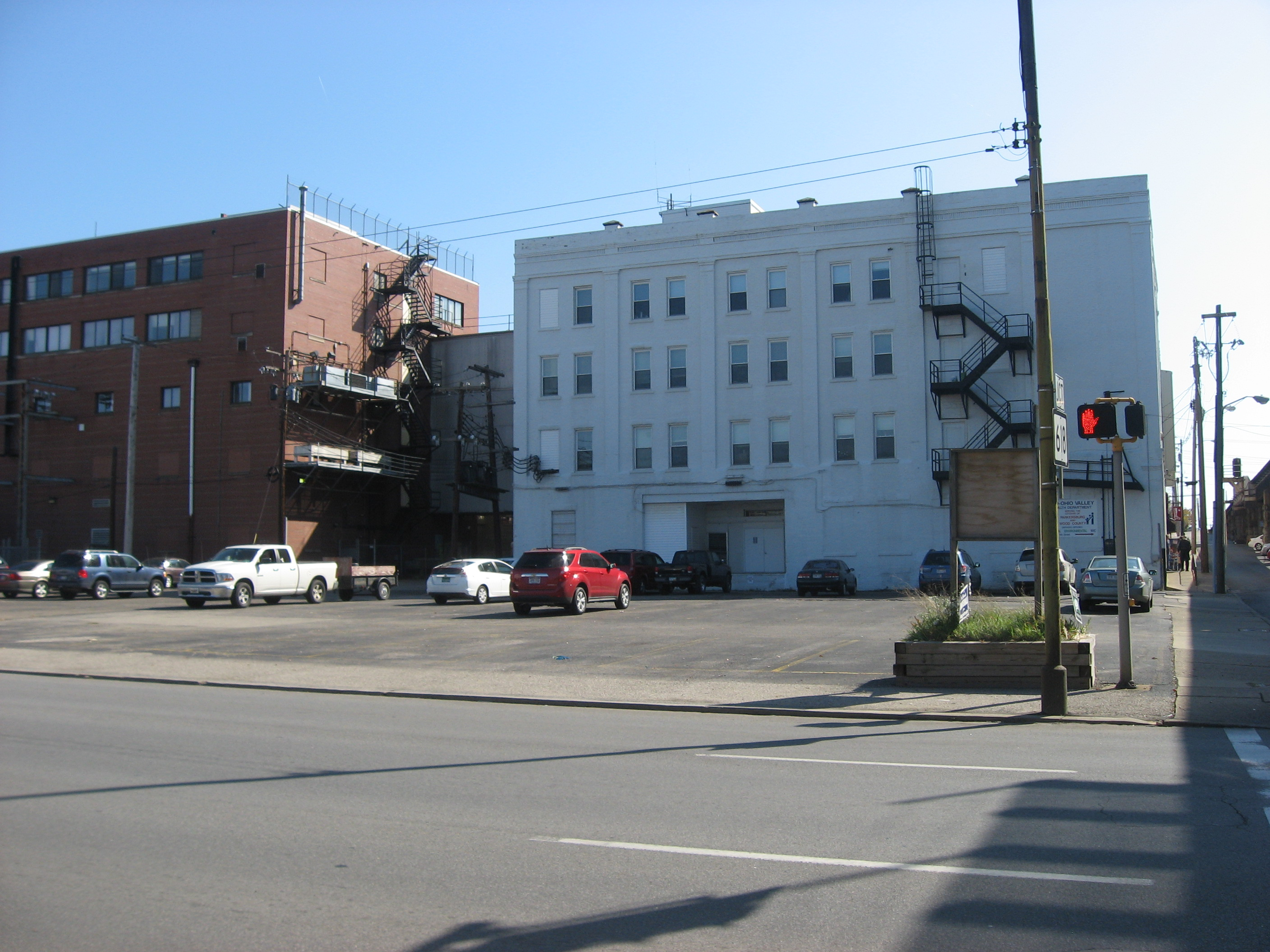 A parking lot at 600 Juliana Street (Template:West Virginia Route 14) in Parkersburg, West Virginia, United States. This was formerly the location of the Peter G. Van Winkle House; built in 1880 and listed on the National Register of Historic Places in 1982, it has been demolished but has not yet been de-designated.